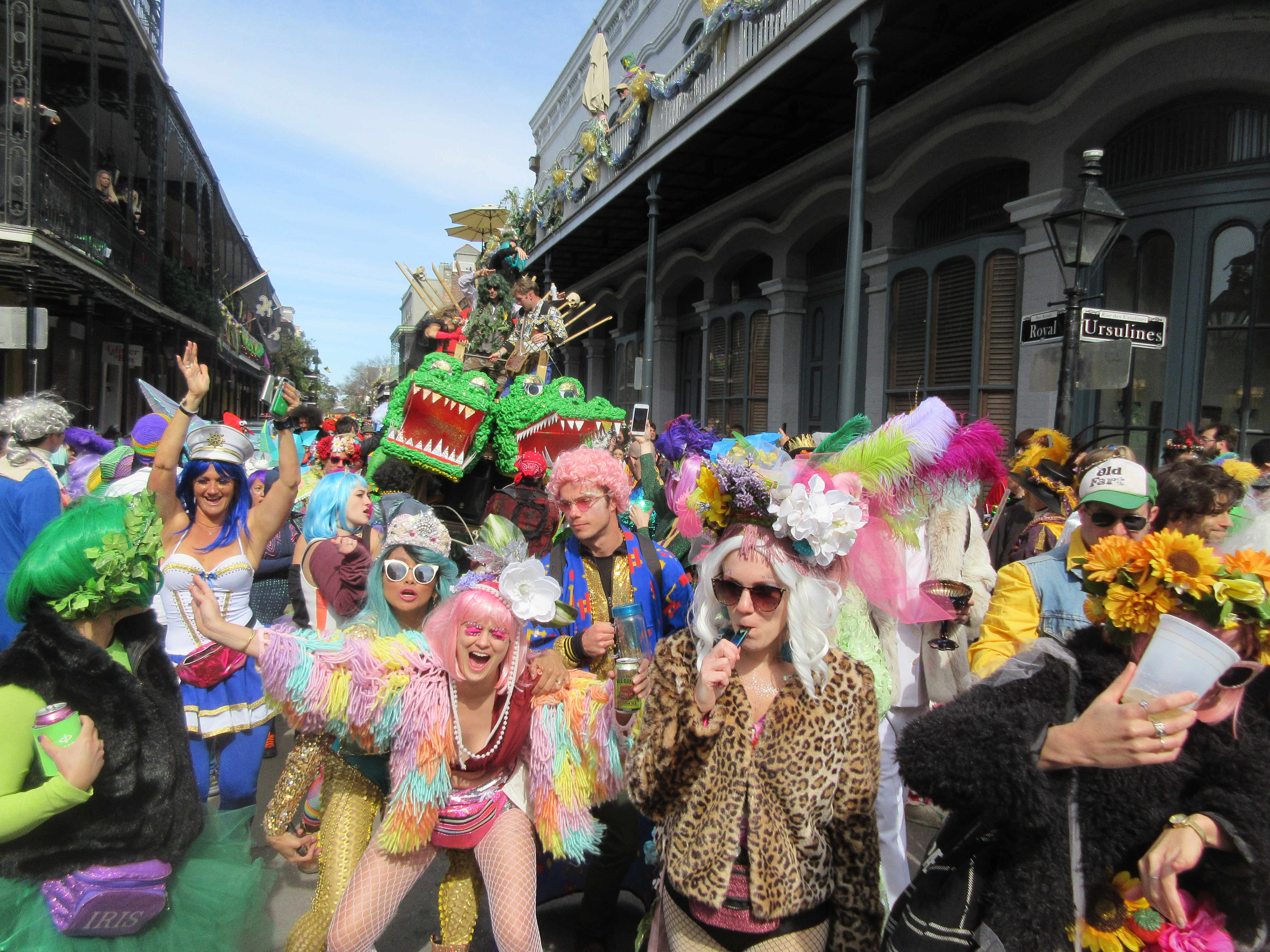 Mardi Gras Day 2019 in New Orleans. Street revelers and small parading groups on lower Royal Street, French Quarter.